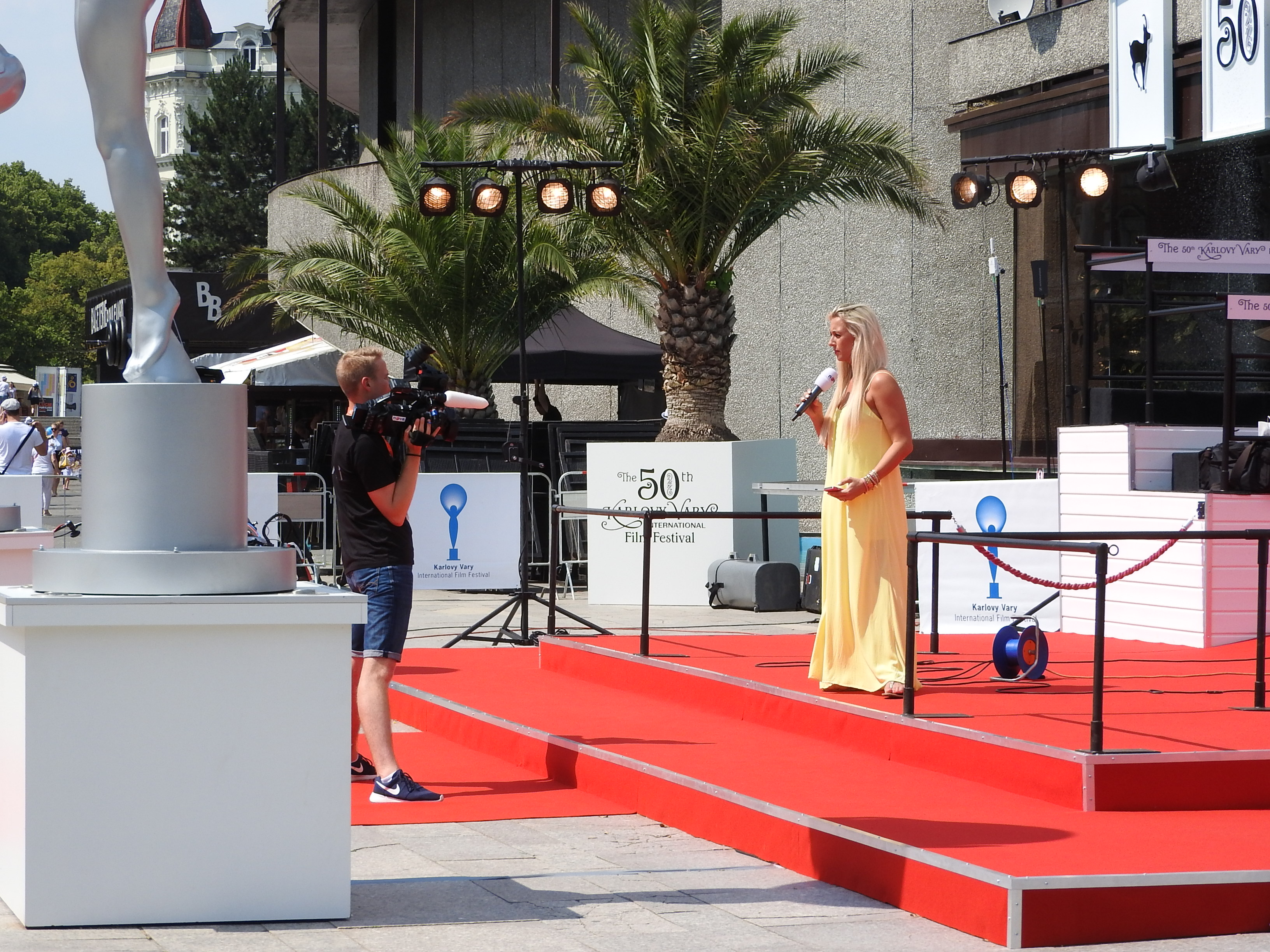 TV Nova reporter during opening of 50th Karlovy Vary International film festival (Karlovy Vary, The Czech Republic), in front of the hotel Thermal, red carpet